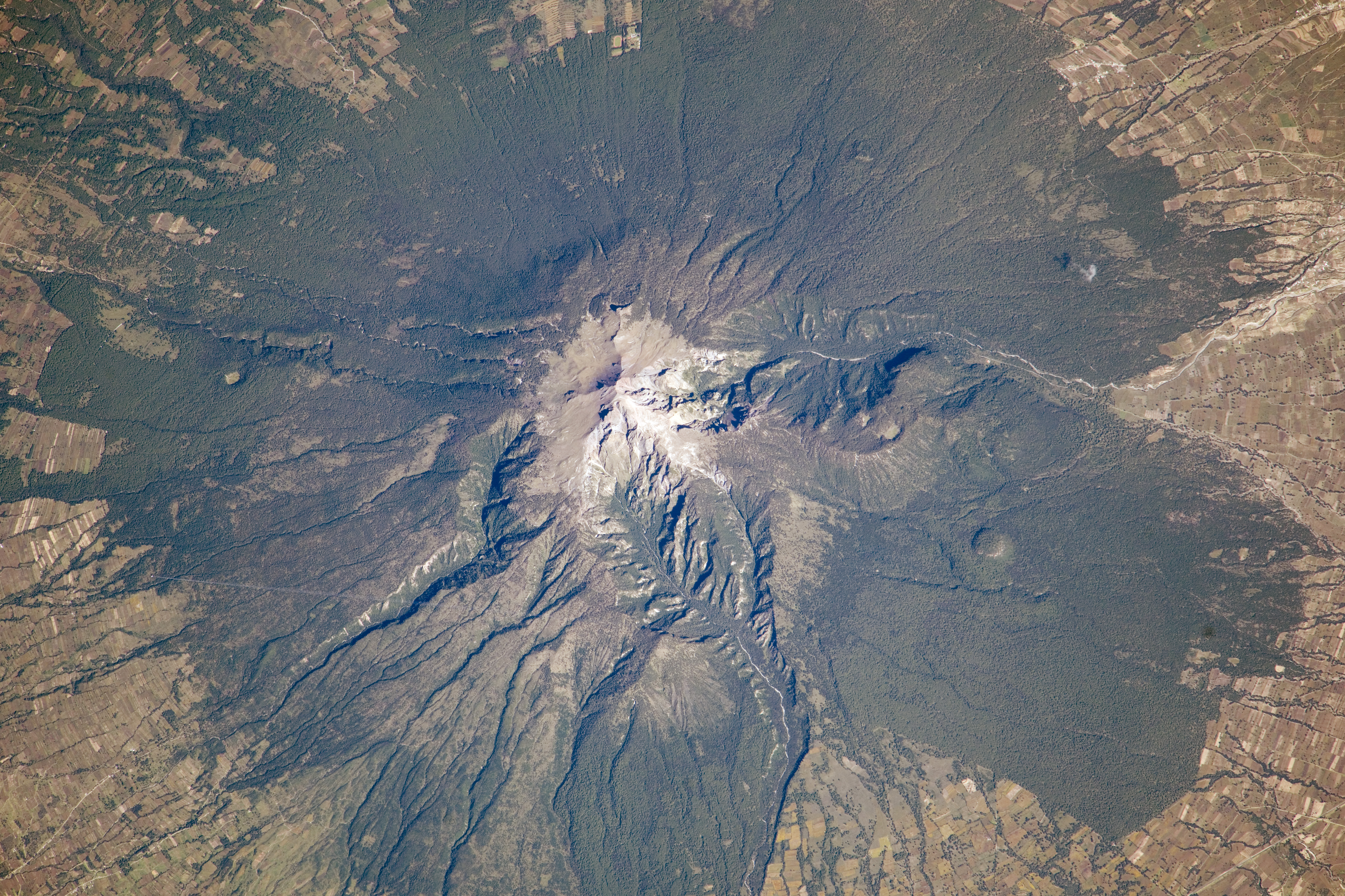 La Malinche Volcano, Mexico is featured in this image photo graphed by an Expedition 37 crew member on the International Space Station. Located approximately 30 kilometers to the northeast of the city of Puebla, the summit of Volcan la Malinche rises to an elevation of 4,461 meters above sea level. This detailed photograph highlights the snow-dusted summit, and the deep canyons that cut into the flanks of this eroded stratovolcano. La Malinche has not been historically active, but radiometric dating of volcanic rocks and deposits associated with the structure indicate a most recent eruption near the end of the 12th century. NASA scientists cite evidence that lahars, or mudflows, associated with an eruption about 3,100 years ago, affected Pre-Columbian settlements in the nearby Puebla basin. The volcano is enclosed within La Malinche National Park situated within parts of the states of Puebla and Tlaxcala; extensive green forest cover is visible on the lower flanks of the volcano. Access to the volcano is available through roadways, and it is frequently used as a training peak by climbers prior to attempting higher summits. The rectangular outlines of agricultural fields are visible forming an outer ring around the forested area. While the volcano appears to be quiescent, its relatively recent (in geological terms) eruptive activity, and location within the Trans-Mexican Volcanic Belt – a tectonically active region with several current and historically active volcanoes including Popocatepetl to the west and Pico de Orizaba to the east – suggests that future activity is still possible and could potentially pose a threat to the nearby city of Puebla.